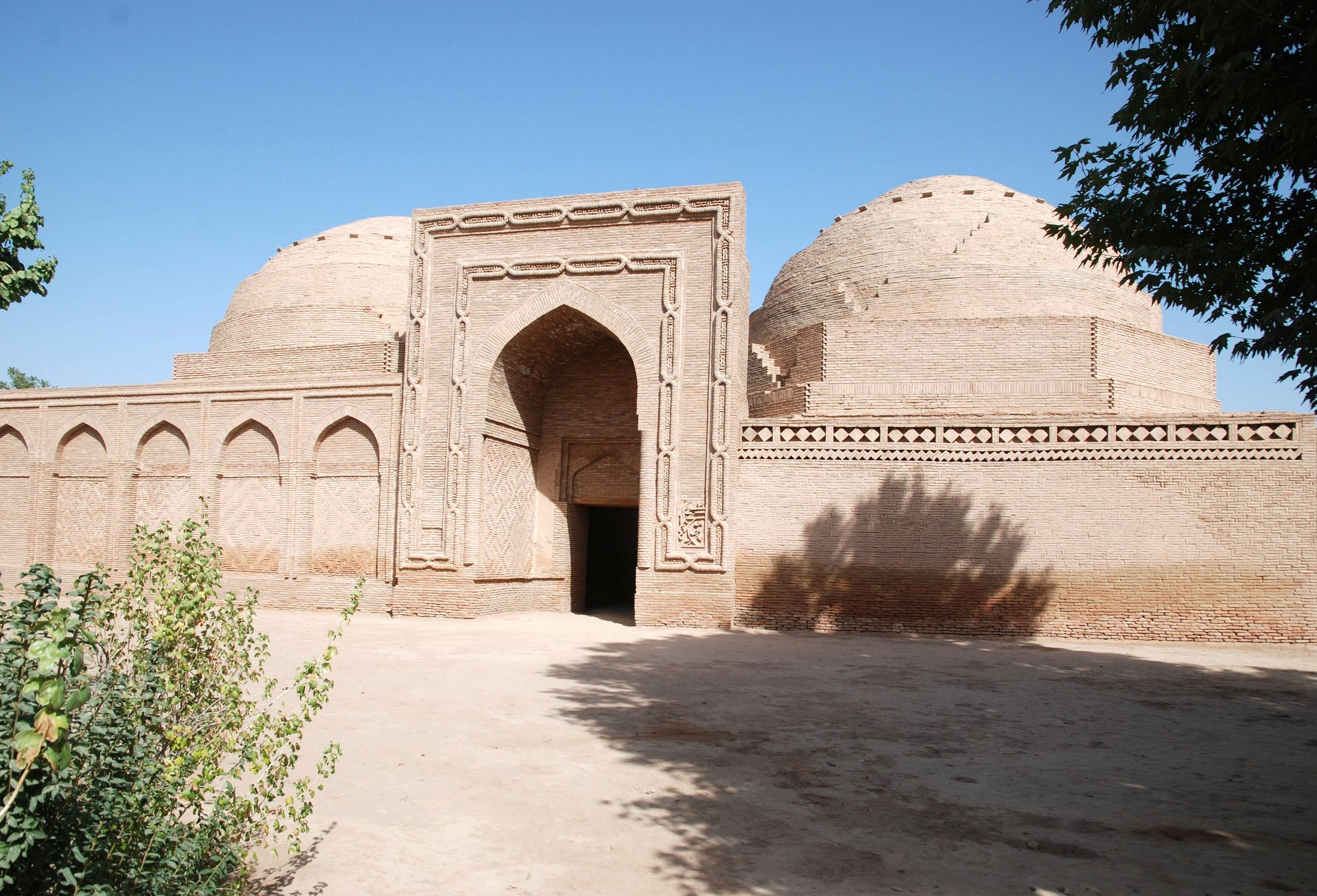 Khoja Mahshad, near Shahrituz, south entrance